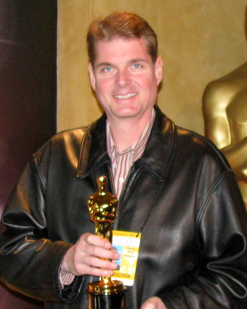 Tom Kane at the Oscars